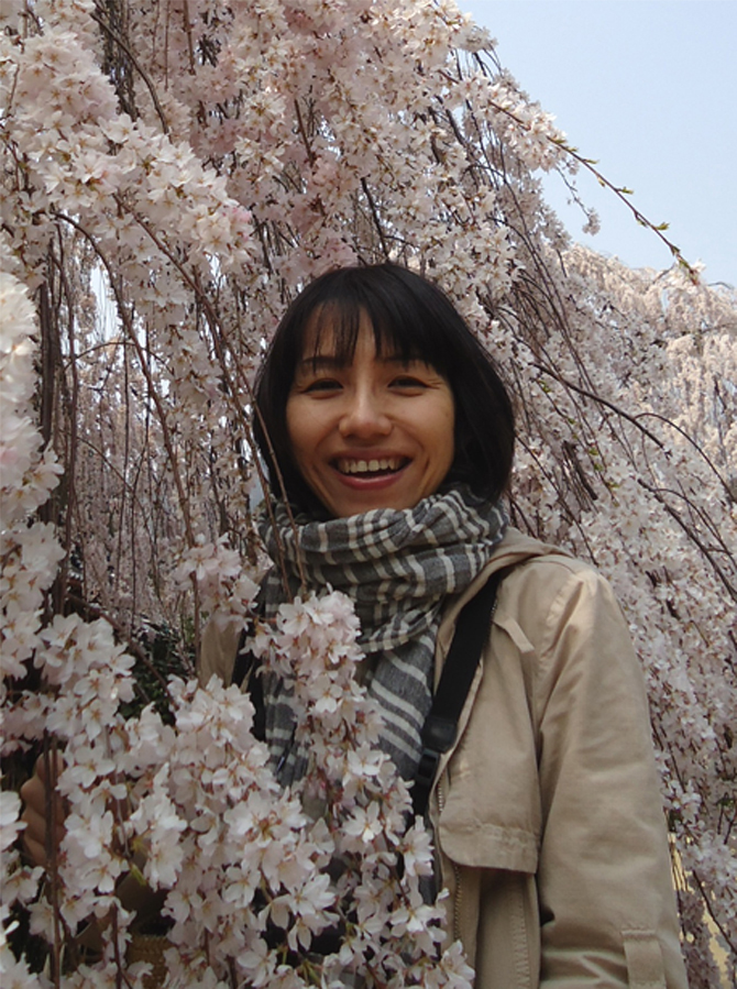 Keiko Ichiguchi